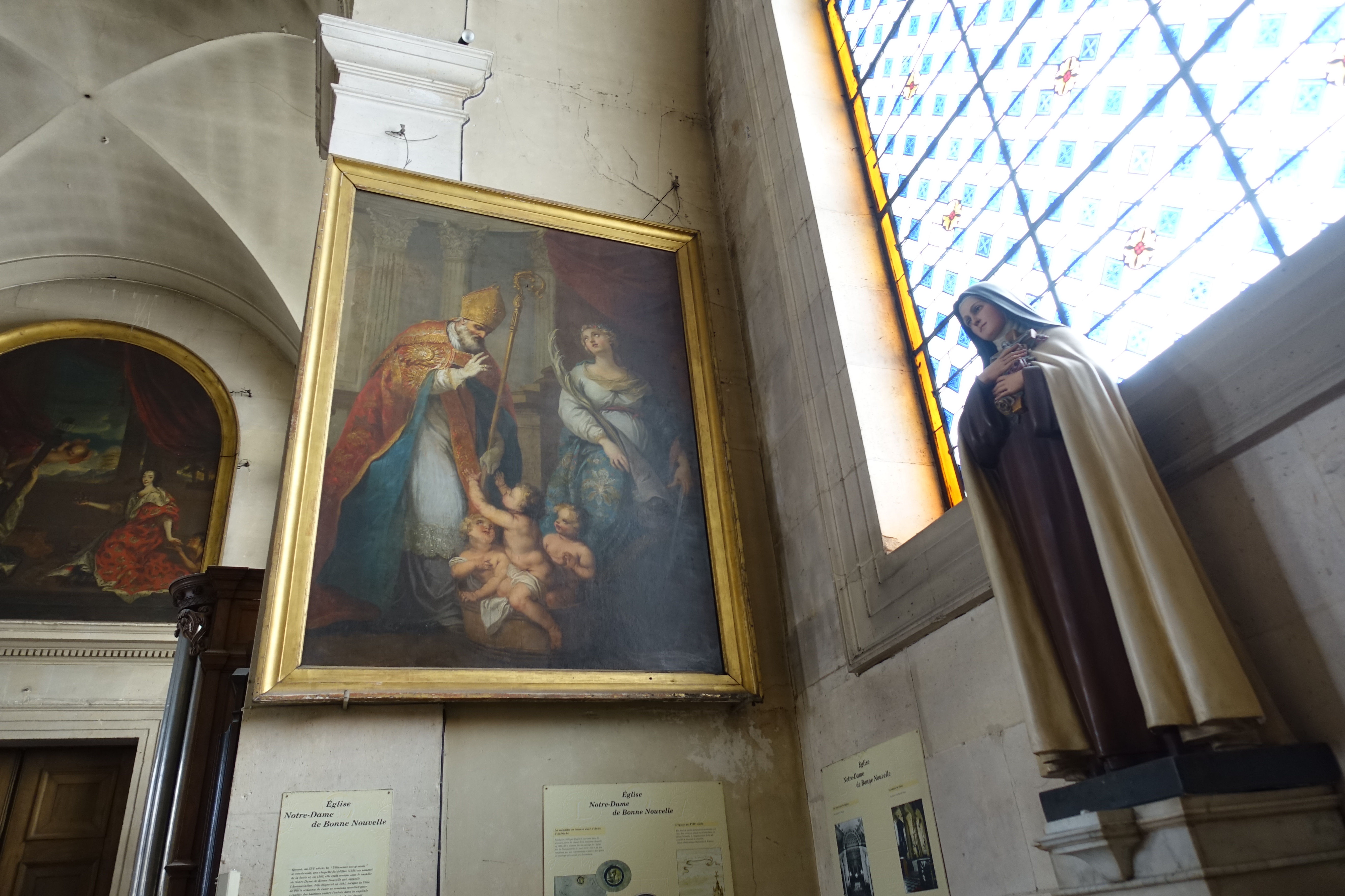 Notre-Dame-de-Bonne-Nouvelle, located at 25 Rue de la Lune, in the 2nd arrondissement of Paris and is a Catholic parish church built between 1823 and 1830. It is dedicated to Notre-Dame de Bonne-Nouvelle, referring to the Annunciation.